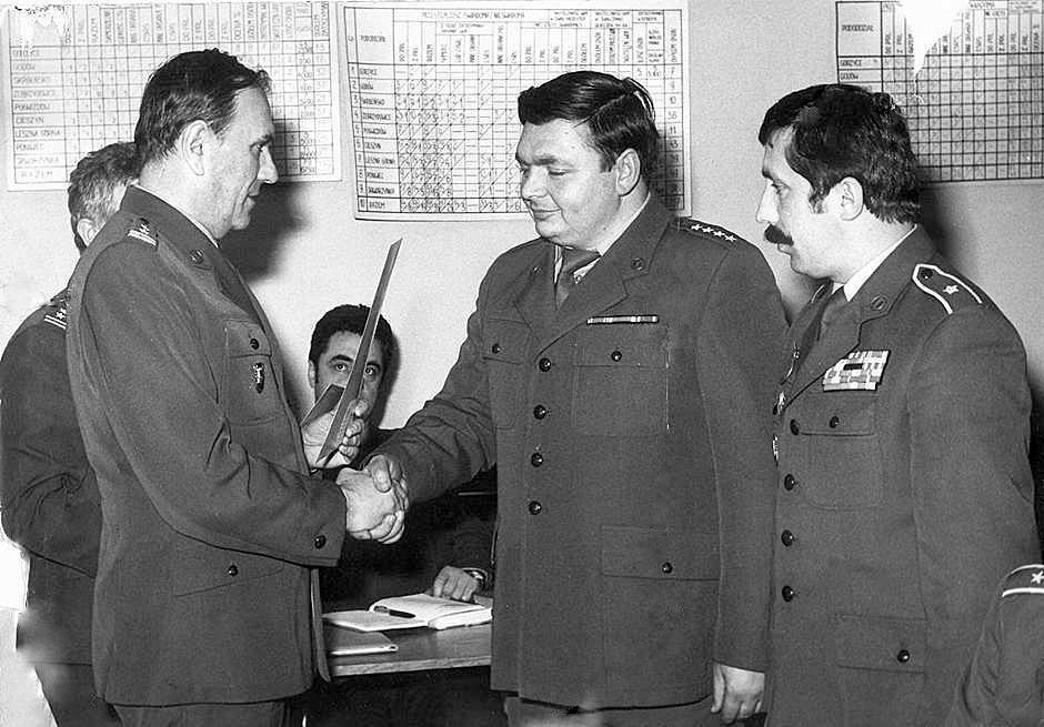 Border Protection Forces in Cieszyn